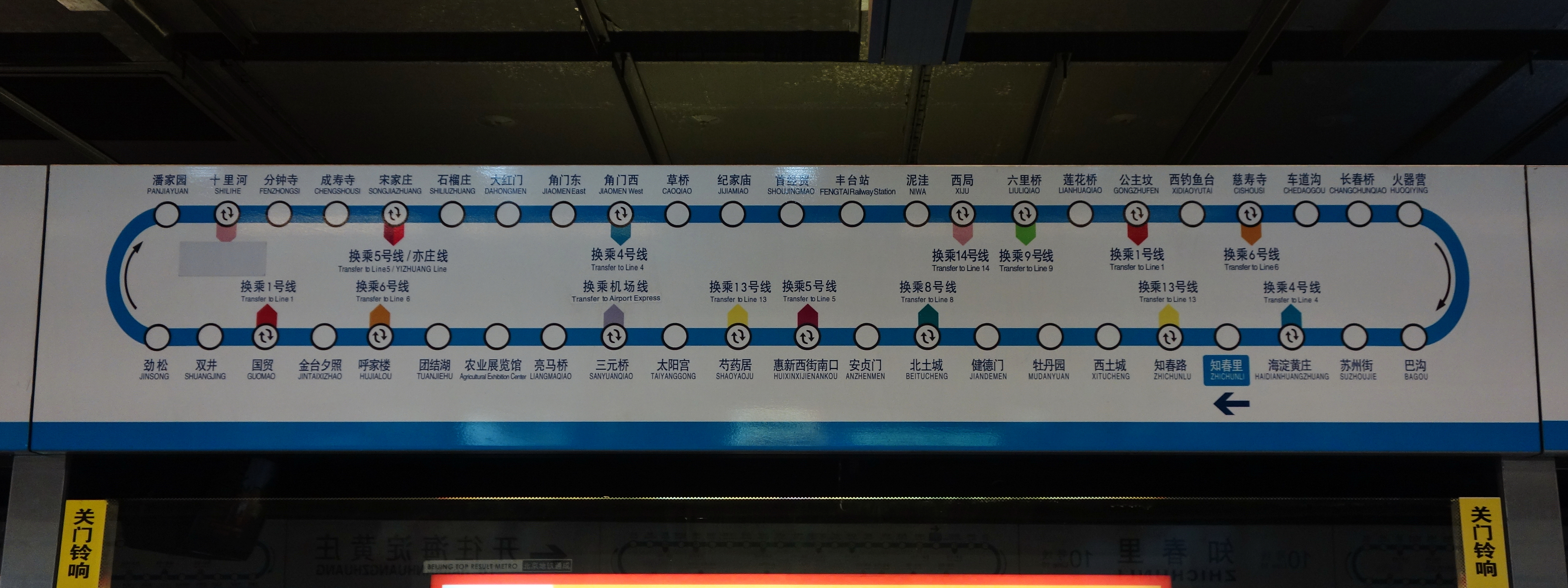 Route Map of Beijing Subway Line 10